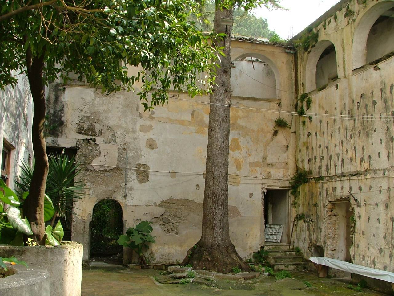 Inside the Conservatory of Pucara, Tramonti